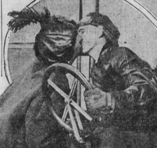 Aviator Silas Christofferson kisses his wife Edna goodbye before a flight from San Francisco to Los Angeles